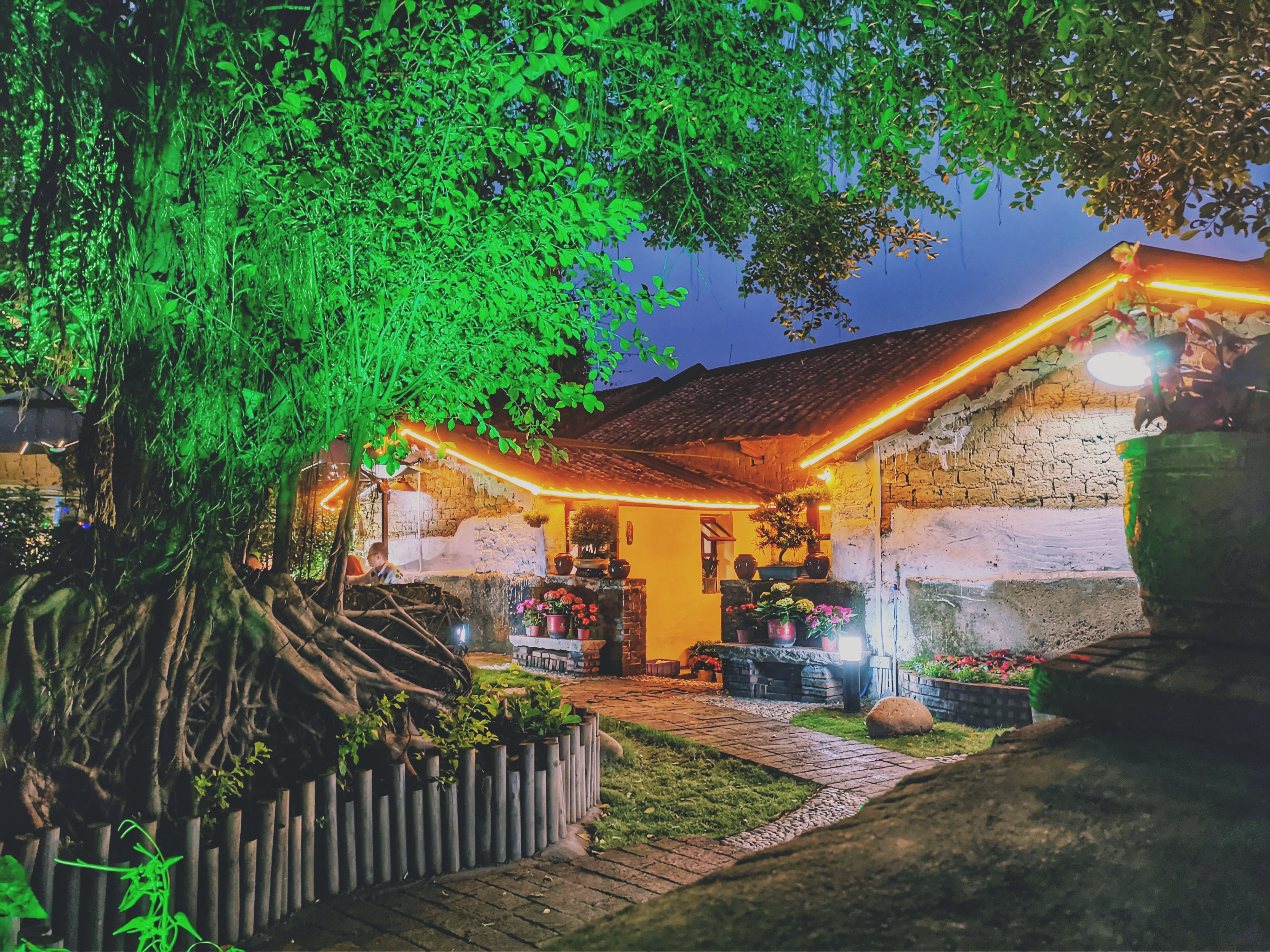 Luochang Fun中文（香港）: 洛場村中文（中国大陆）: 洛场村